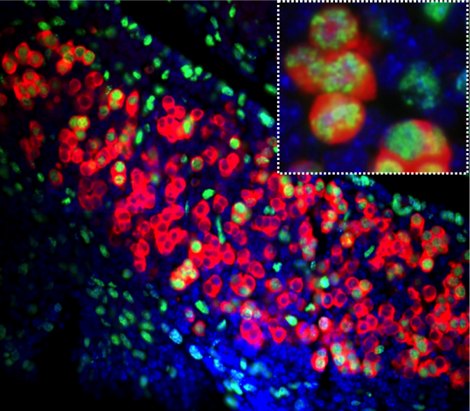 Rspo1 promotes XX germ cells proliferation. A- Reduction of germ cell proliferation in XX Rspo1 mutant gonads. Immunodetection of the proliferating germ cells with green (BrdU), surface red (MVH), nuclei blue (DAPI) (upper panel). The apoptotic germ cells with TUNEL (green) and MVH (red) (lower panel) Mouse XX gonad at E12.5.